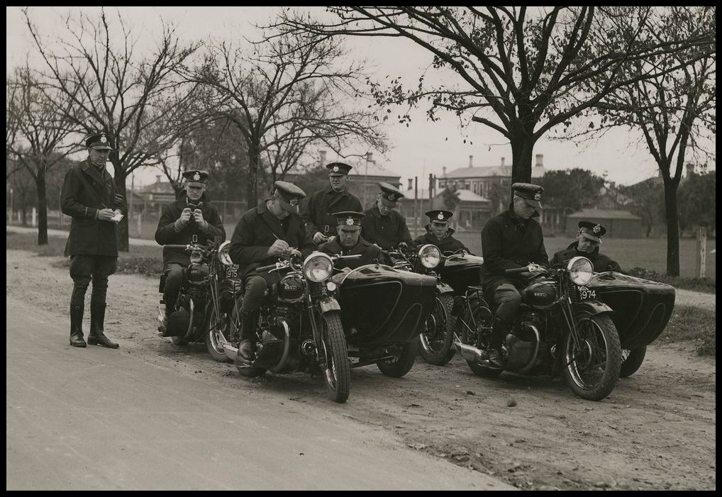 South Australian Police motor bike patrols.